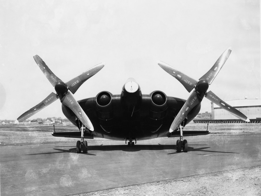 PictionID:41546190 - Title:Ray Wagner Collection Image - Catalog:16_000444 Vought XF5U-1 33958 mfg - Filename:16_000444 Vought XF5U-1 33958 mfg.tif - - - Image from the Ray Wagner Collection. Ray Wagner was Archivist at the San Diego Air and Space Museum for several years and is an author of several books on aviation --- ---Please Tag these images so that the information can be permanently stored with the digital file.---Repository: San Diego Air and Space Museum